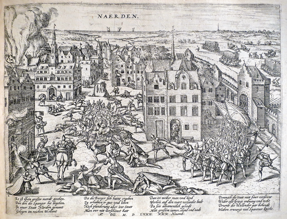 Engraving that depicts the Spanish entry in the rebel city of Naerden, in the Netherlands in 30 November 1572. The author, a protestant, emphasizes alleged atrocities and deaths of civilians. Copper engraving by Frans Hogenberg, published in Cologne around 1600.